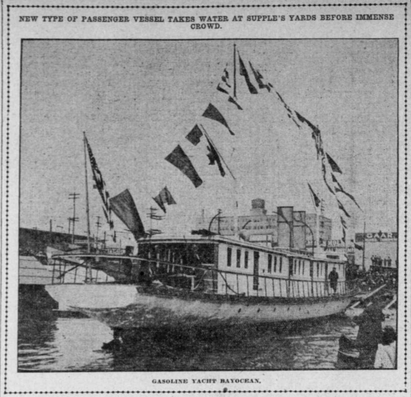 Launch of the motor yacht BayOcean in Portland, Oregon, May 1911.